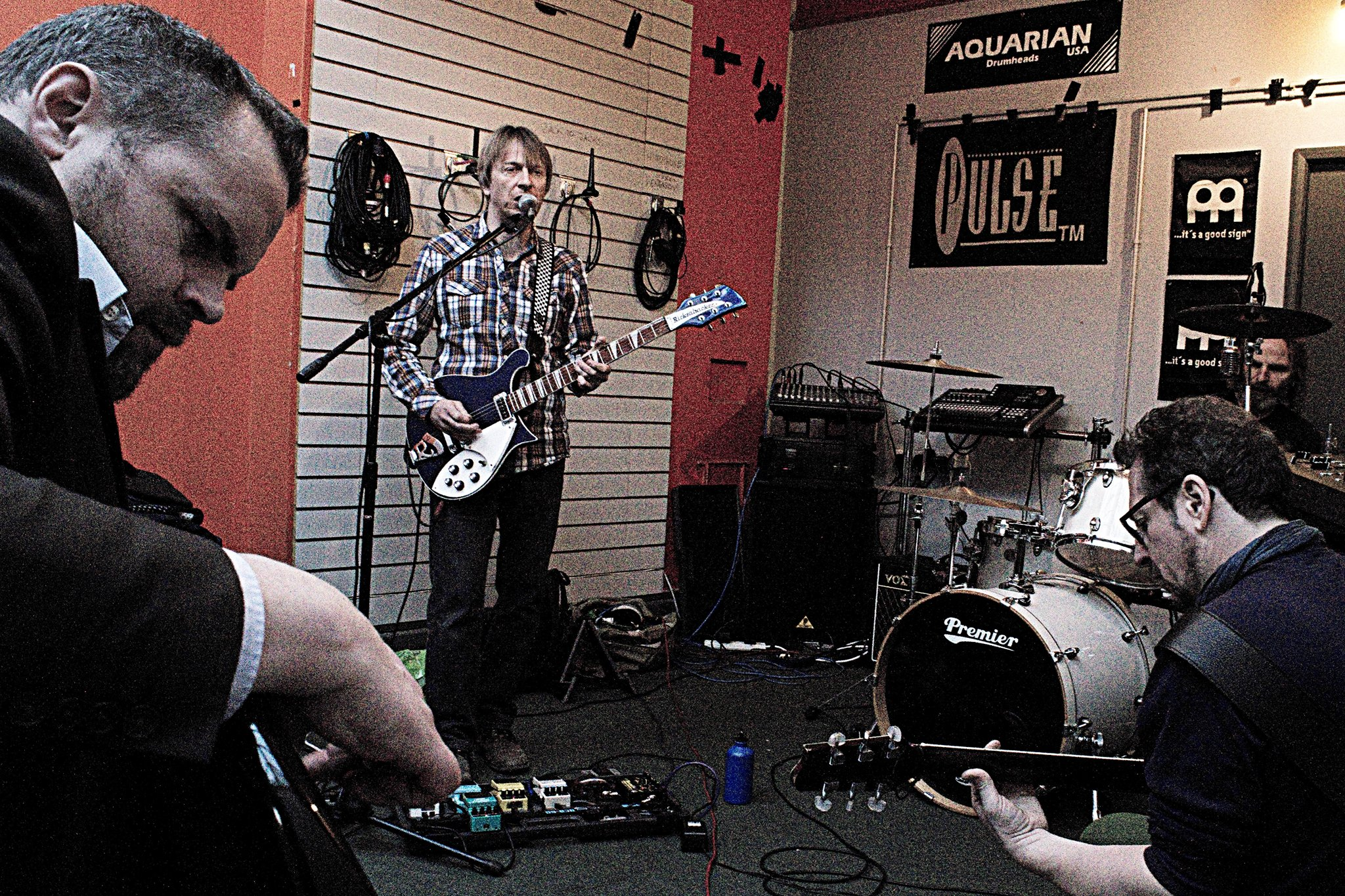 Photo of the members of Moscow Circus.